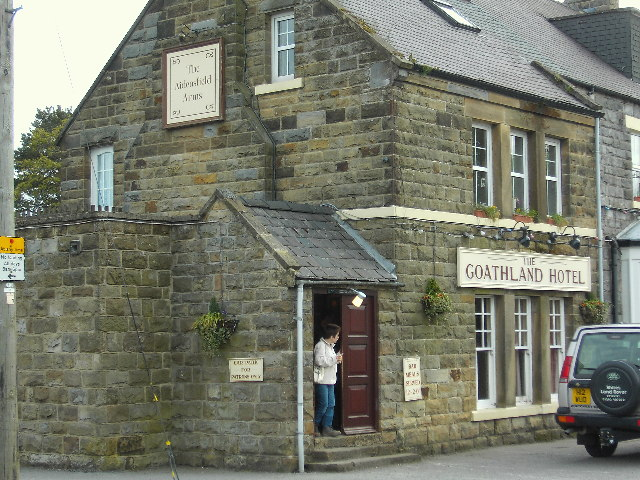 Goathland Hotel. Also known as the 'Aidensfield Arms' on the tv series 'Heartbeat'